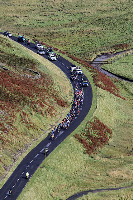 This view of the peloton and race vehicles on the A708 was taken from Herman Law. The third stage of the race between Jedburgh and Dumfries, a distance of 152.6km, was won by Mark Cavendish.